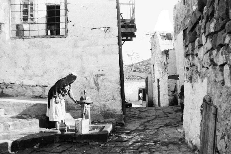 Samakh